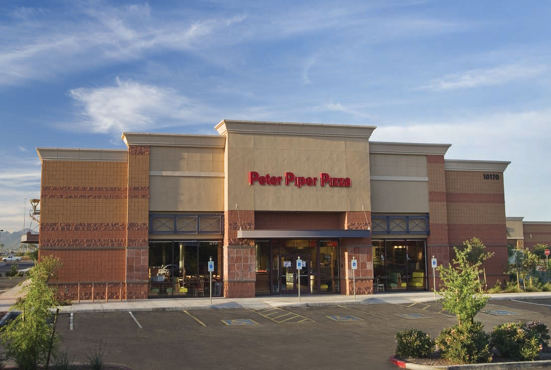 Peter Piper Pizza, 99th Ave & McDowell, Avondale, Arizona